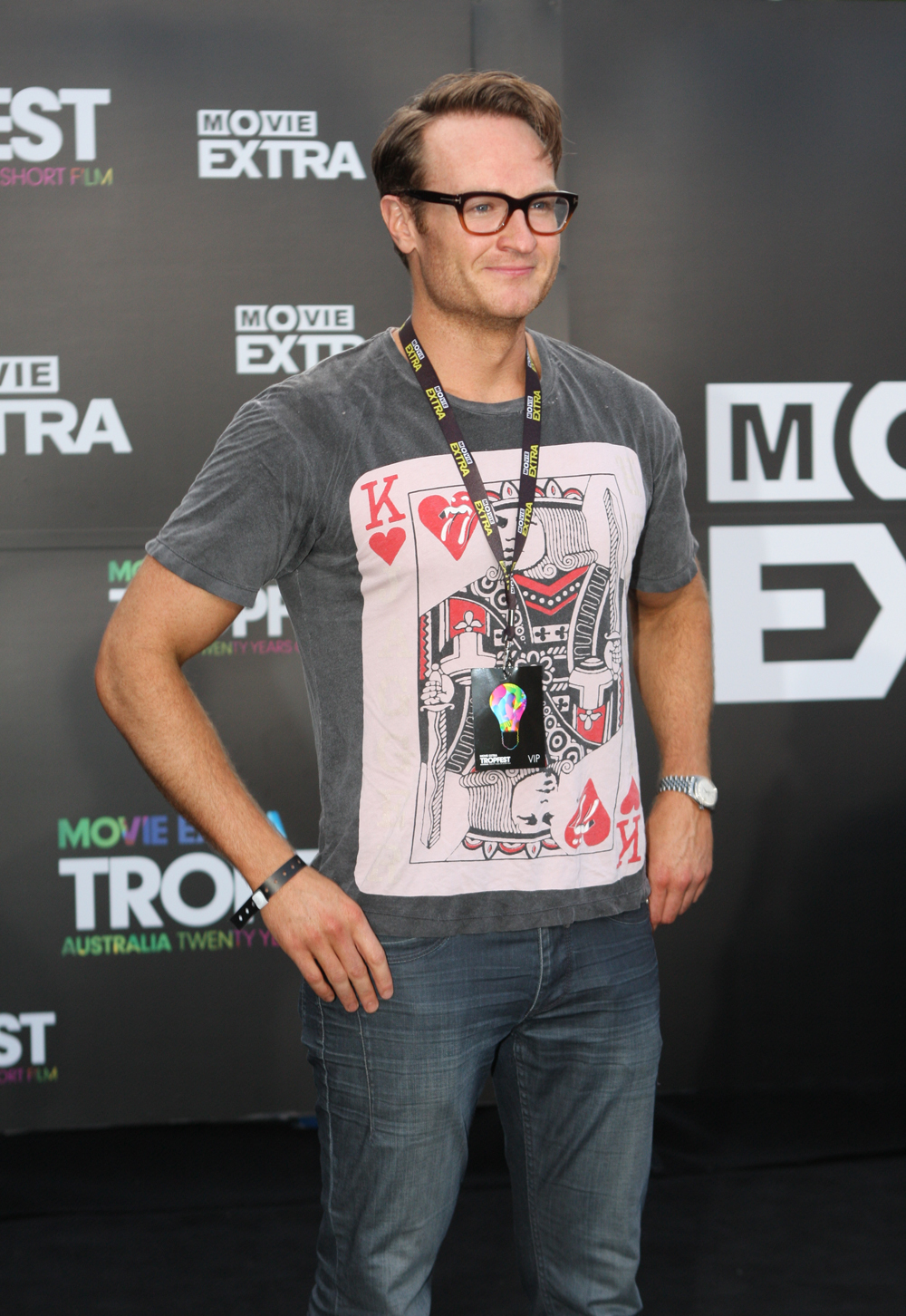 Australian actor Josh Lawson at Tropfest 2012 in Sydney, Australia